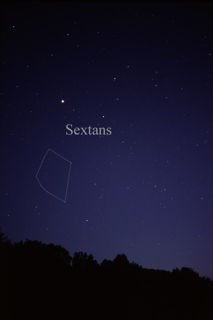 Photography of the constellation Sextans, the sextant